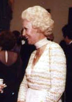 Holly Coors